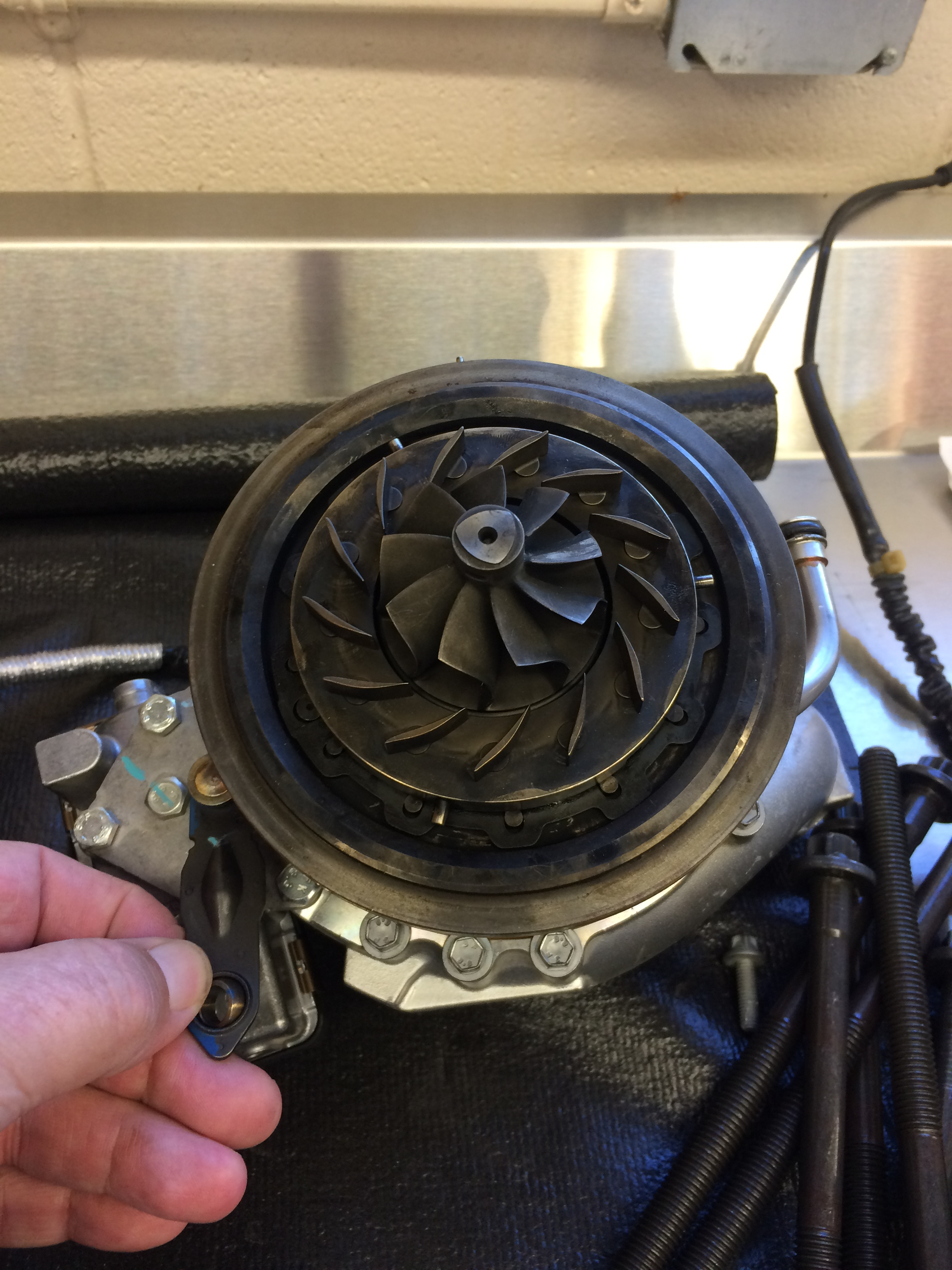 OM642 VGT full boost position